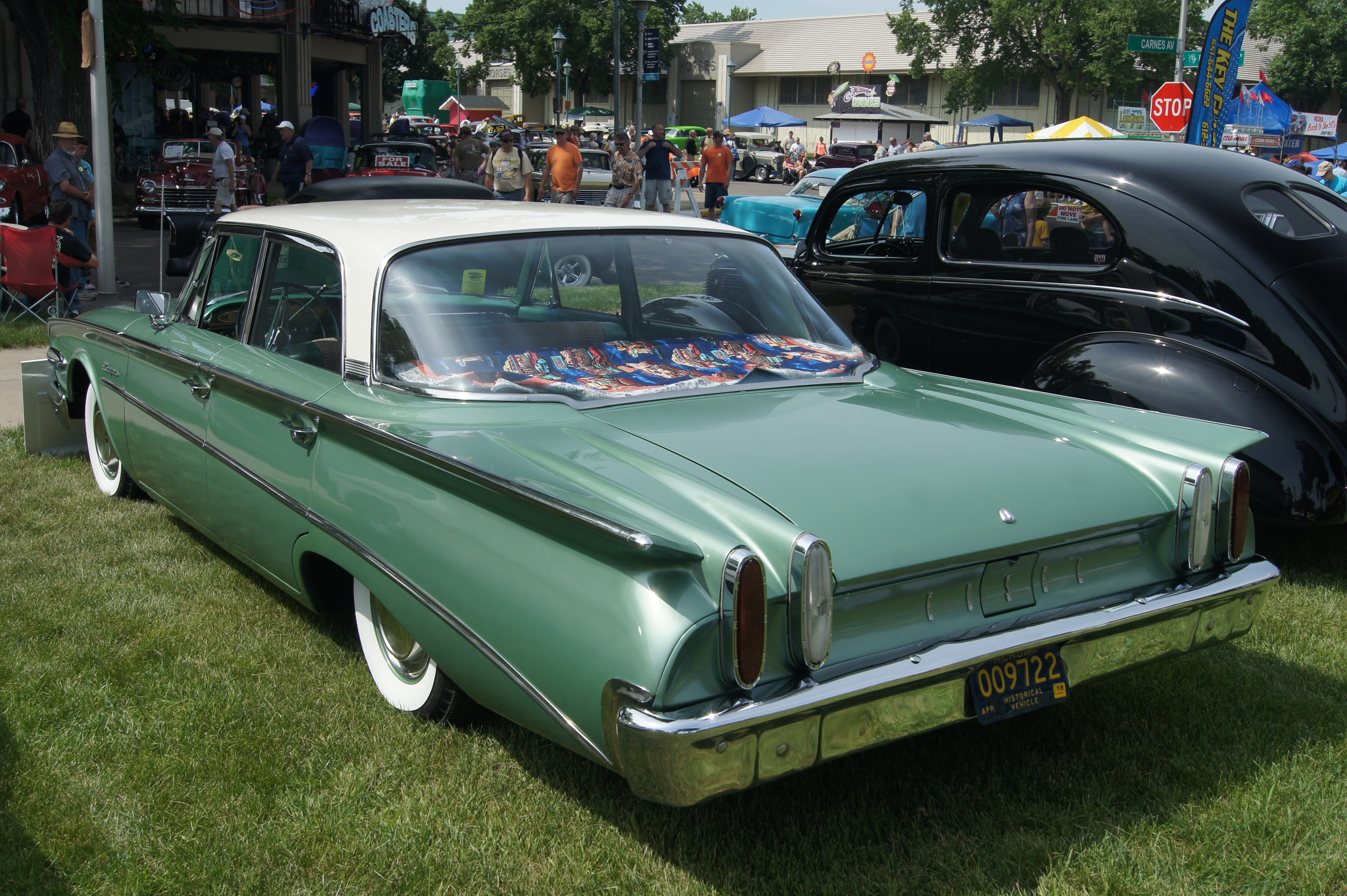 MSRA “BACK TO THE 50′s” 42nd Annual June 19-21, 2015 State Fairgrounds St. Paul Minnesota Click here for more car pictures at my Flickr site.